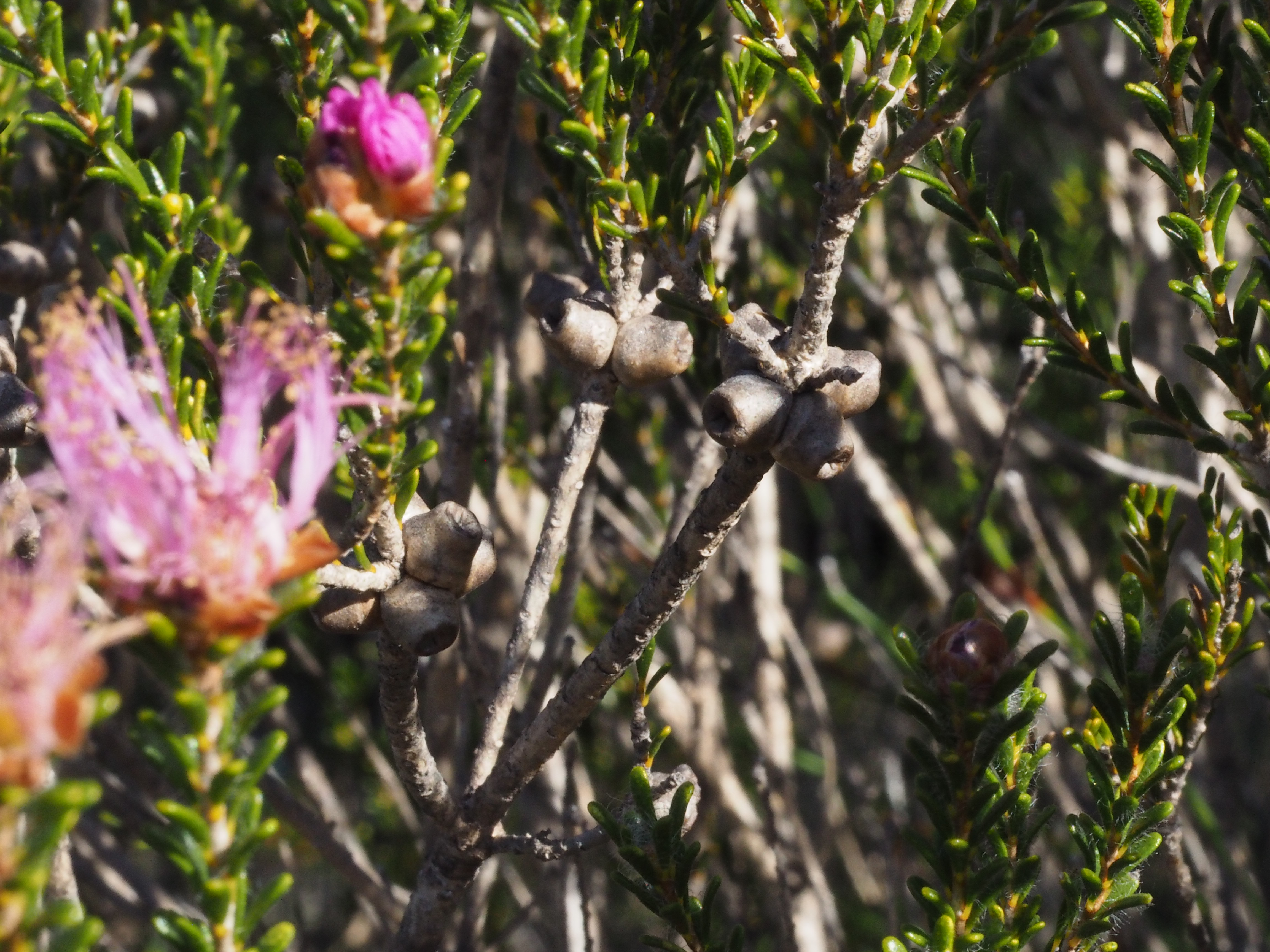 Melaleuca bisulcata in Kalbarri National Park, near Hawks Head turnoff